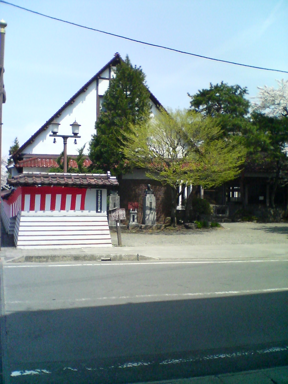 Gotō Shimpei Kominkan in Ōshū, Iwate, Japan. The oldest kominkan.